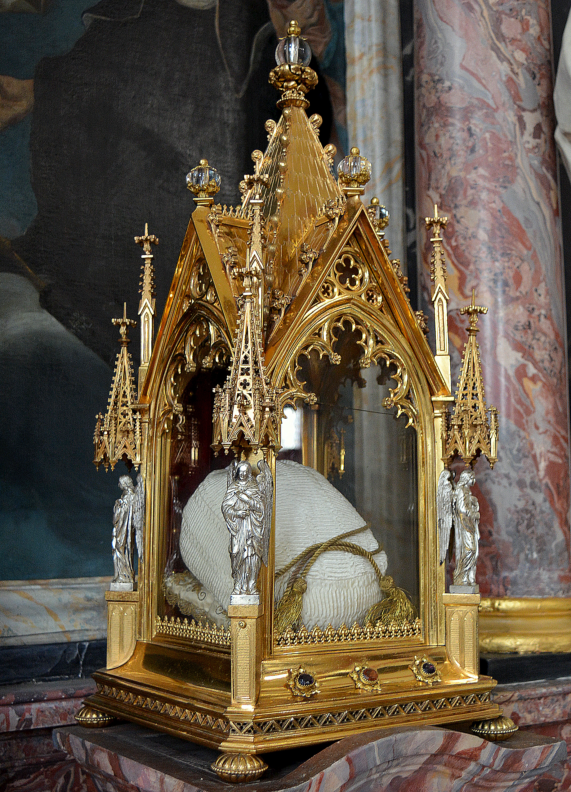 Schönau Abbey (Nassau)